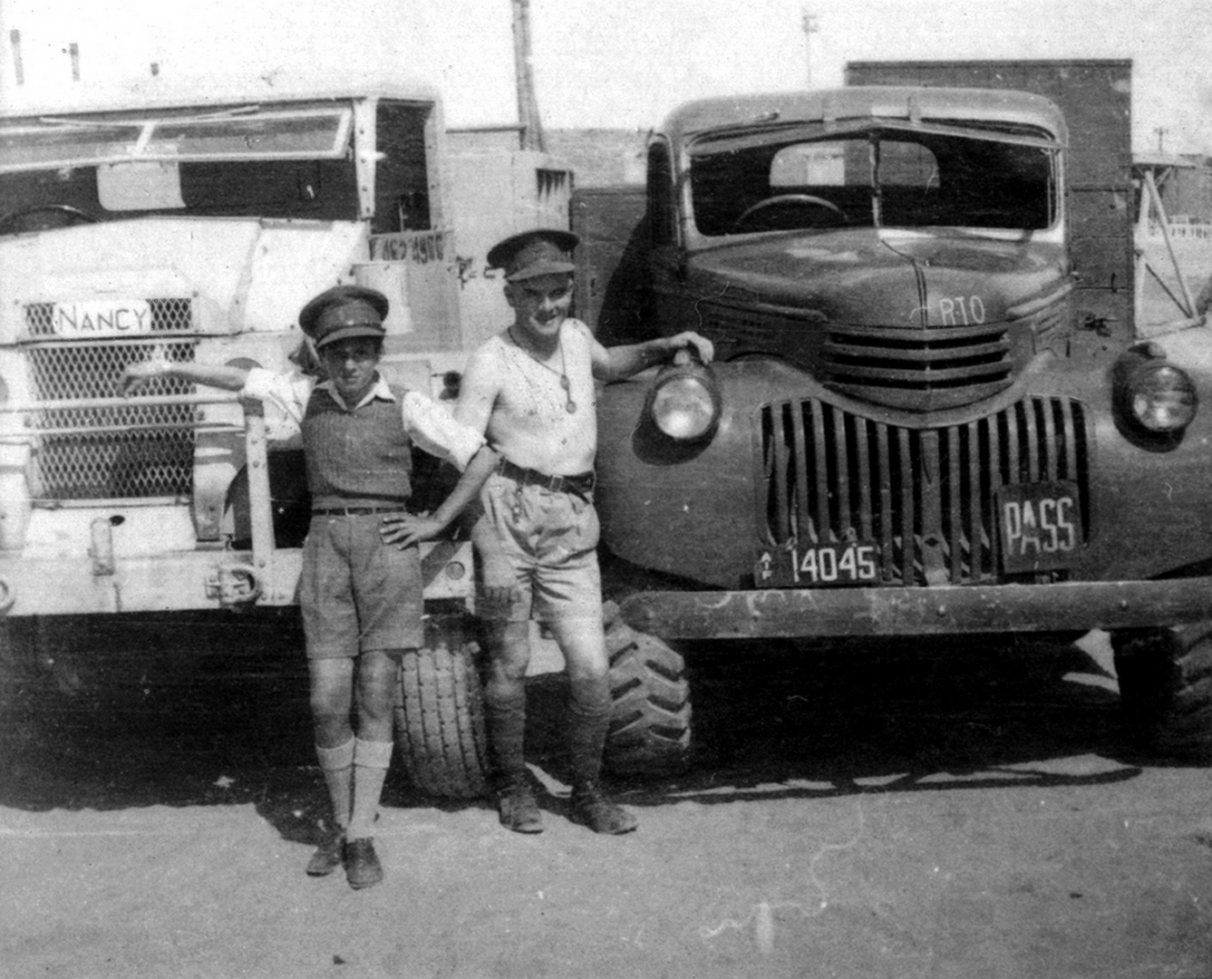 006 1942 - Dvr Tom Beazley with 'local assistant' at El Kantara